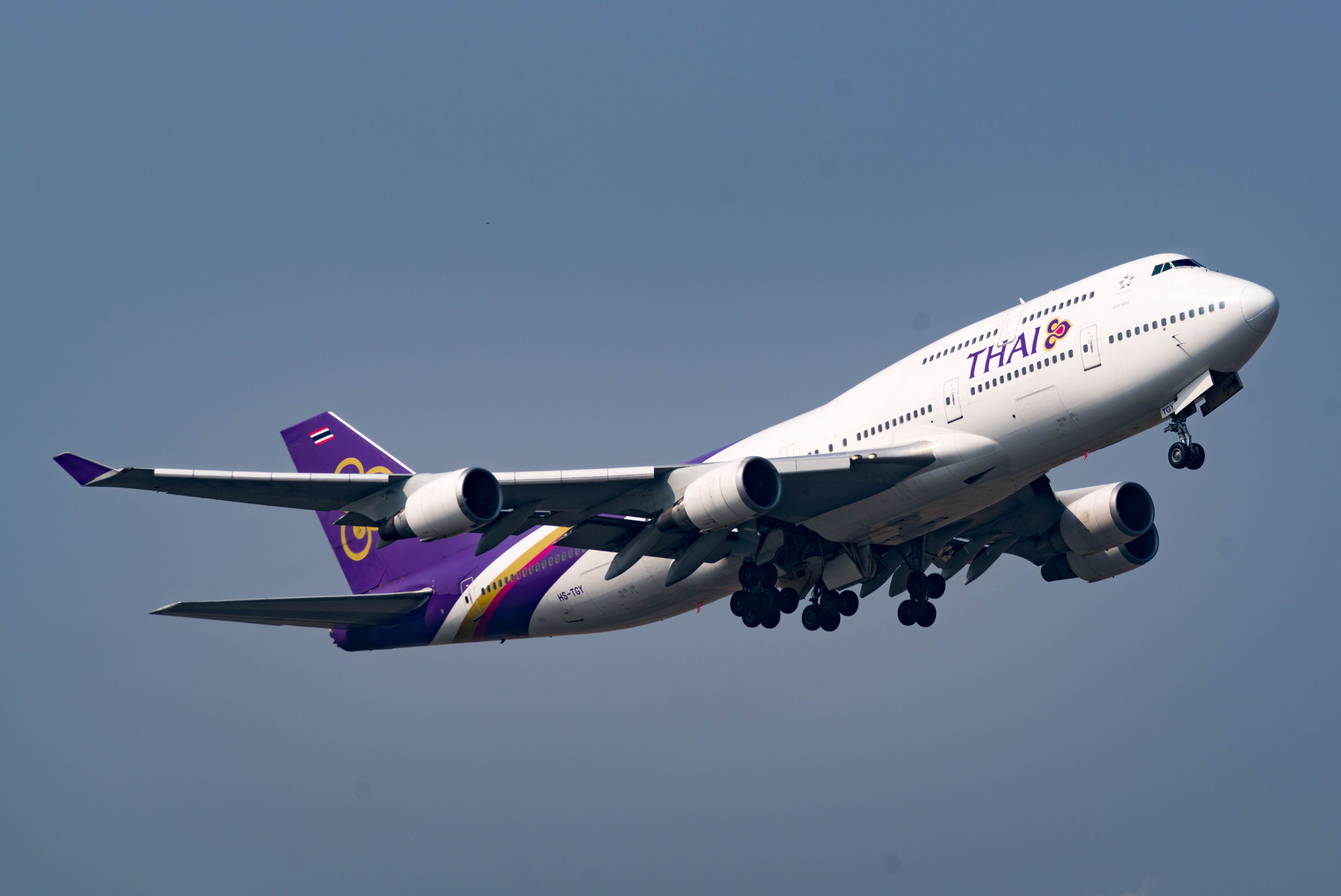 Thai Airways International Boeing 747 at Kansai International Airport